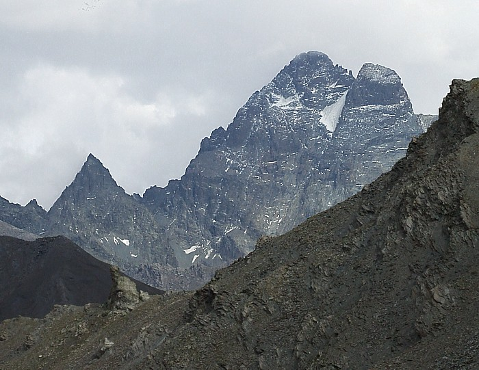 The Monviso seen from the Col de Chamoussiere picture taken by user Idéfix August 2006